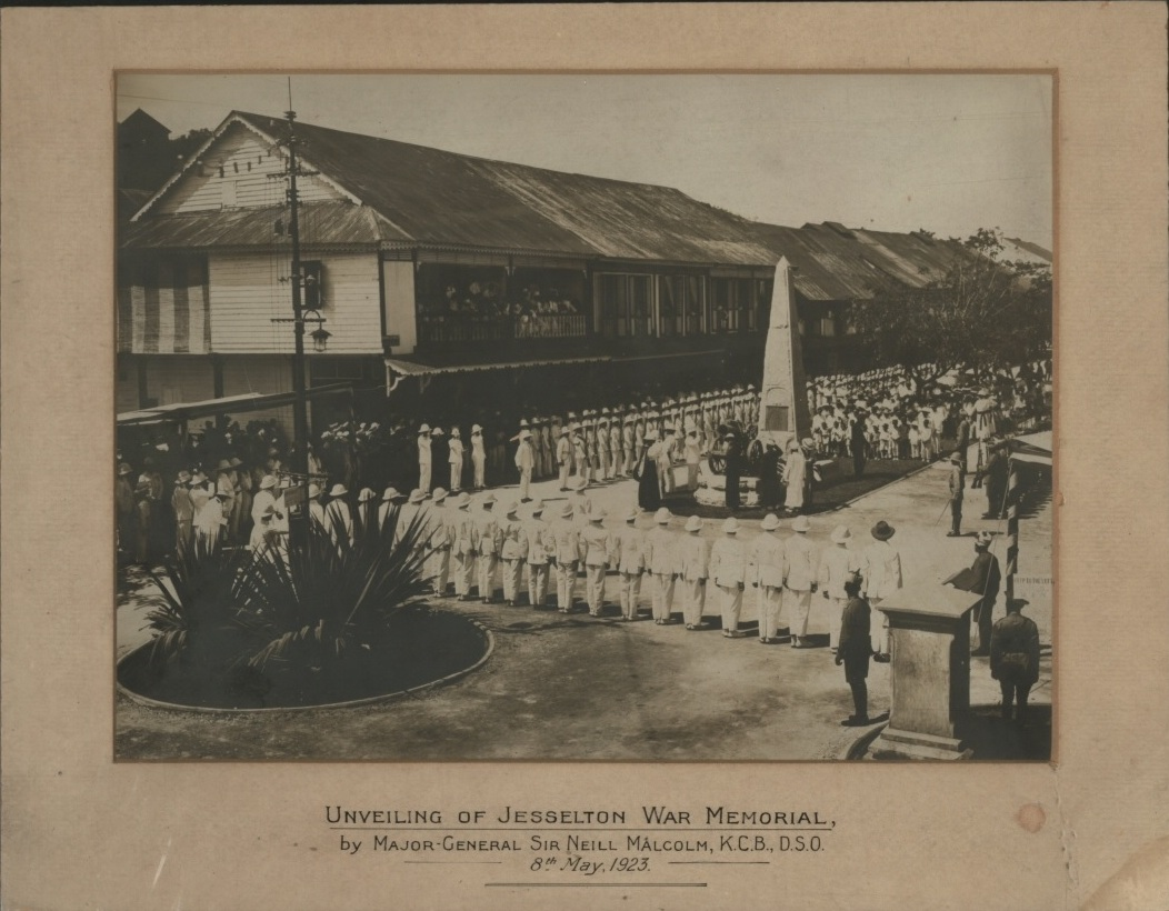 Description: Unveiling of Jesselton War Memorial, by Major-General Sir Neill Malcolm, K.C.B., D.S.O. 8th May. 1923. Location: Jesselton, Borneo Date: 08 May 1923 Our Catalogue Reference: Part of CO 1069/542. This image is part of the Colonial Office photographic collection held at The National Archives. Feel free to share it within the spirit of the Commons. Please use the comments section below the pictures to share any information you have about the people, places or events shown. We have attempted to provide place information for the images automatically but our software may not have found the correct location. For high quality reproductions of any item from our collection please contact our image library